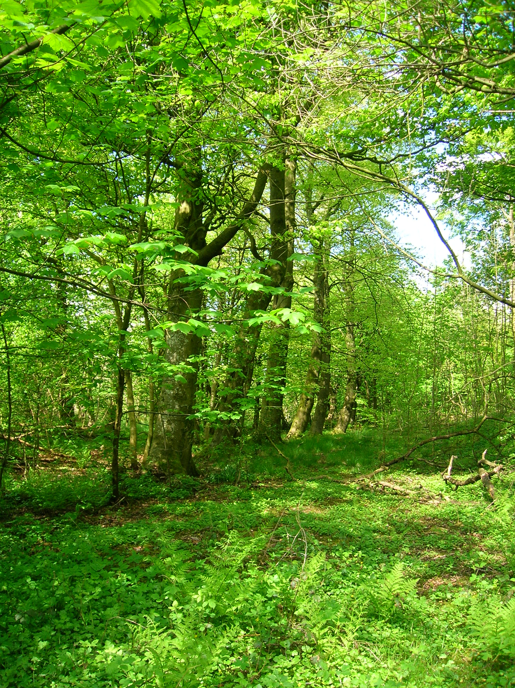 The Forbidden Path at Spier's School Grounds, North Ayrshire, Scotland